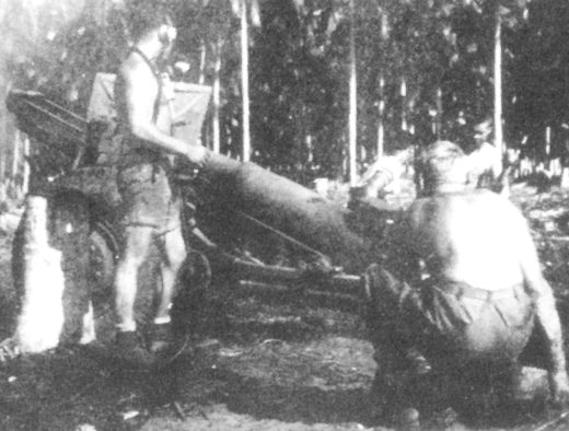 U.S. Marine 150mm howitzer fires at Japanese forces on Guadalcanal west of the Matanikau River in late October, 1942.